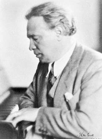 Ottorino Respighi, photography by Madeline Grimoldi at 1935